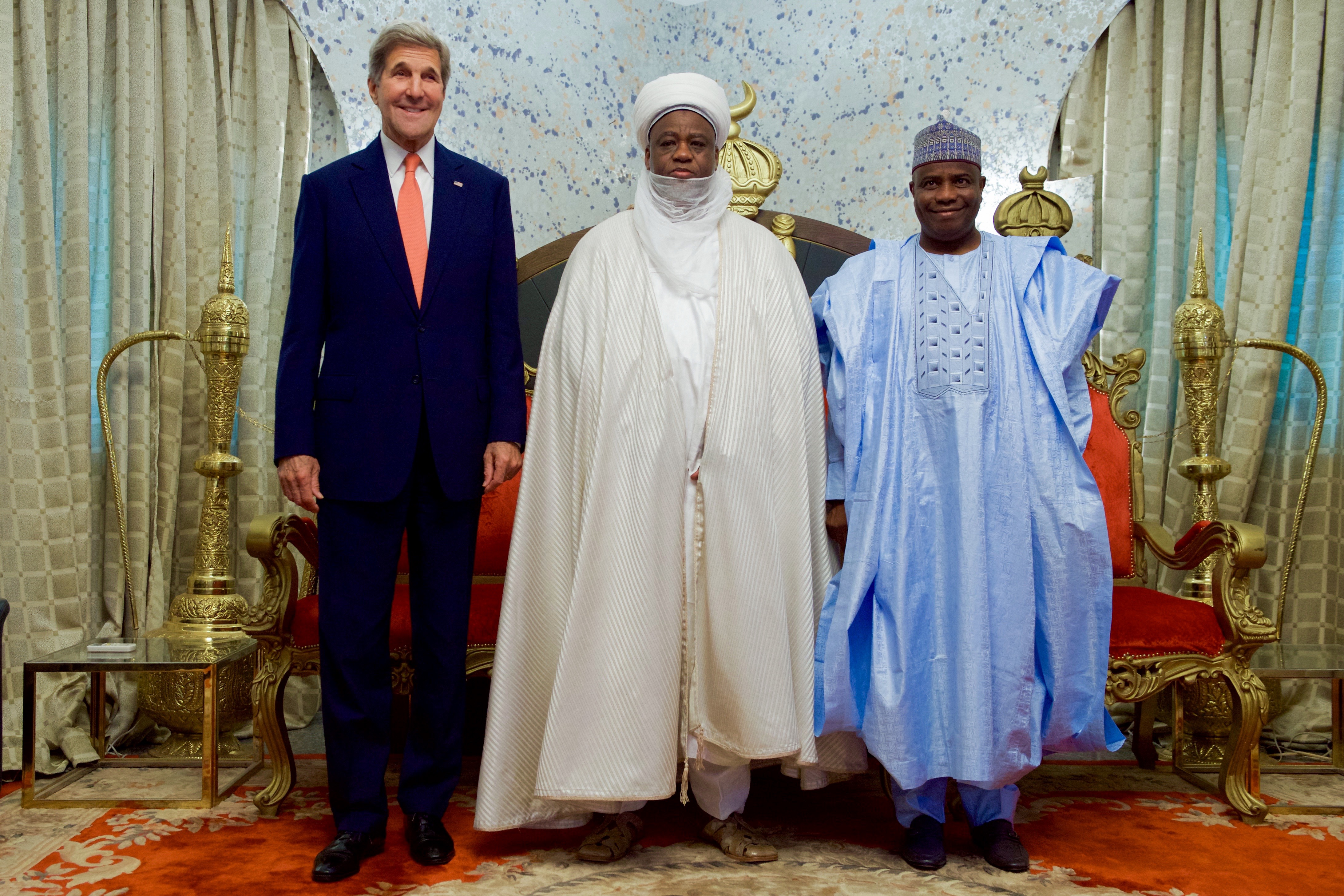 U.S. Secretary of State John Kerry poses for a photo with Sultan Muhammadu Sa’ad Abubakar, and Governor of Sokoto Aminu Waziri Tambuwai at the Sultan’s Palace in Sokoto, Nigeria, on August 23, 2016, before the Secretary held meetings with religious leaders and delivered a speech about countering violent extremism. [State Department photo/ Public Domain]